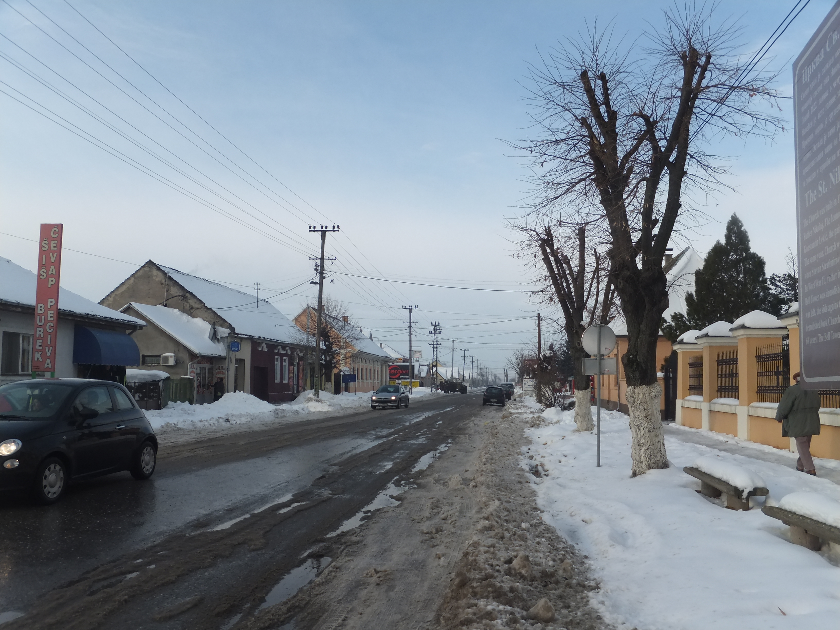 Šimanovci town center